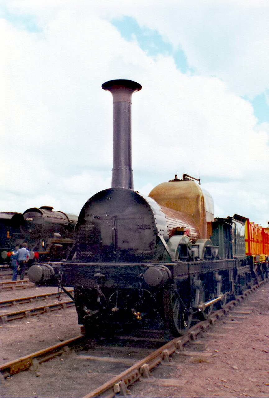 This is the 'Lion', taken at the 150th anniversary celebrations of the Rainhill trials.